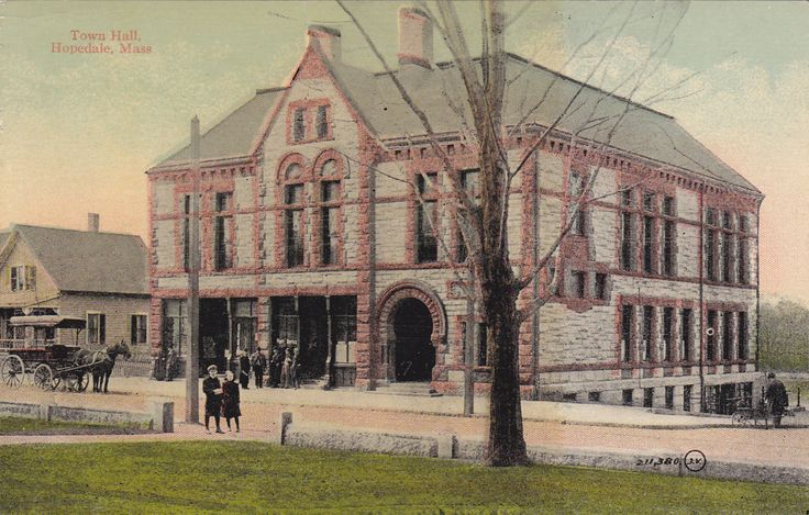 Postcard with an early view of Hopedale's Town Hall (ca. 1887)